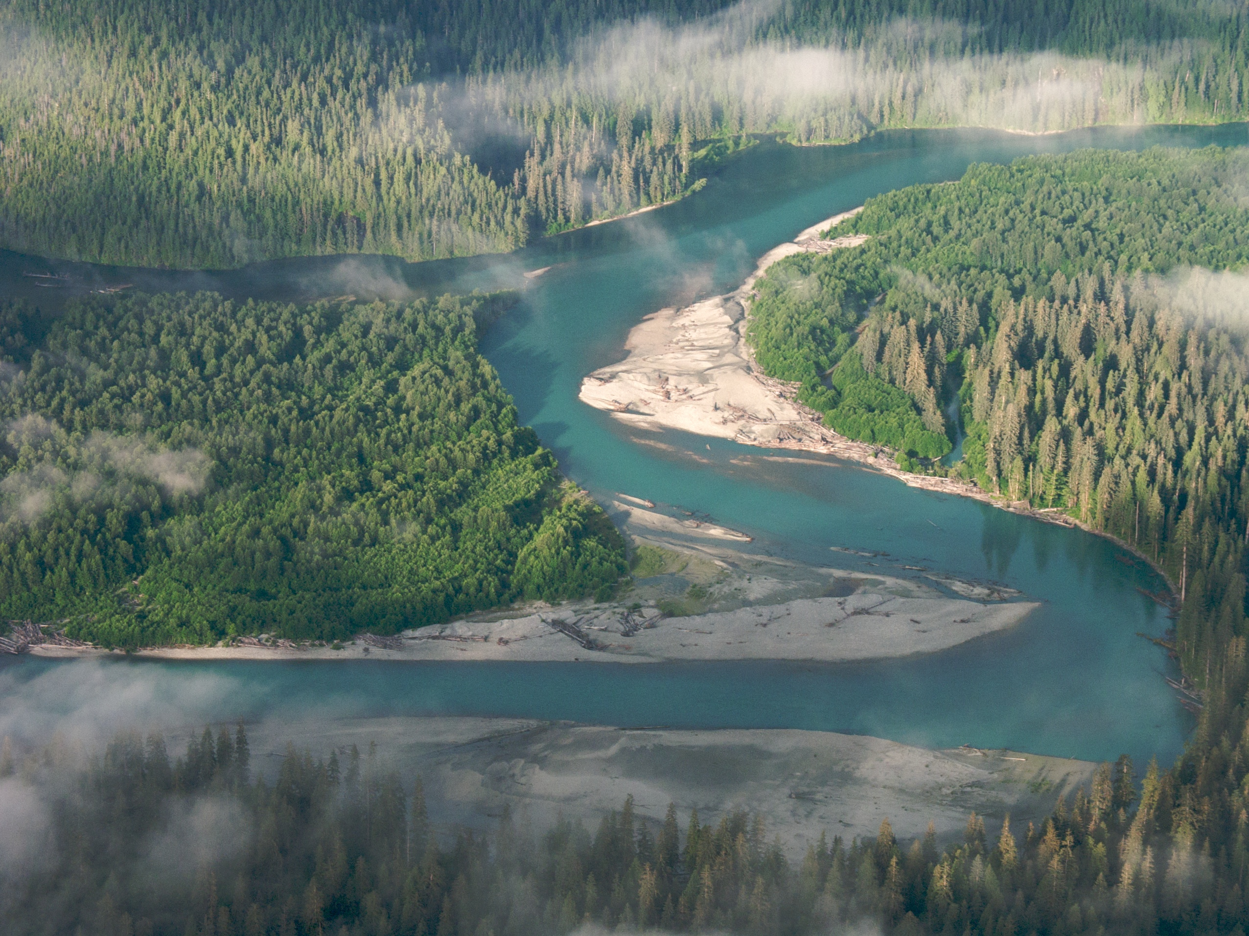 Kitlope River below Gamsby River